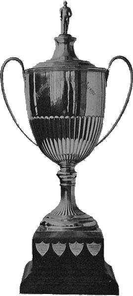 Tie Cup Competition trophy, donated by Francis Hepburn Chevallier Boutell, the president of Argentine Association Football League, in 1900. The tournament was played on an annual basis until 1919.